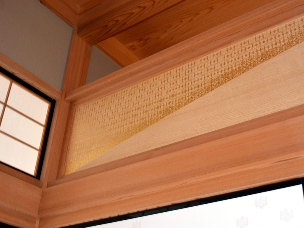 Like the stage doors in Fuji-no-Ma, the ranma (transom) of Kiri no Ma is ornamented using kirikane technique. The name of this piece is Nichigetsu (Sun/Moon), and the dual motif is laid out to present a different aspect depending on the direction of the light.